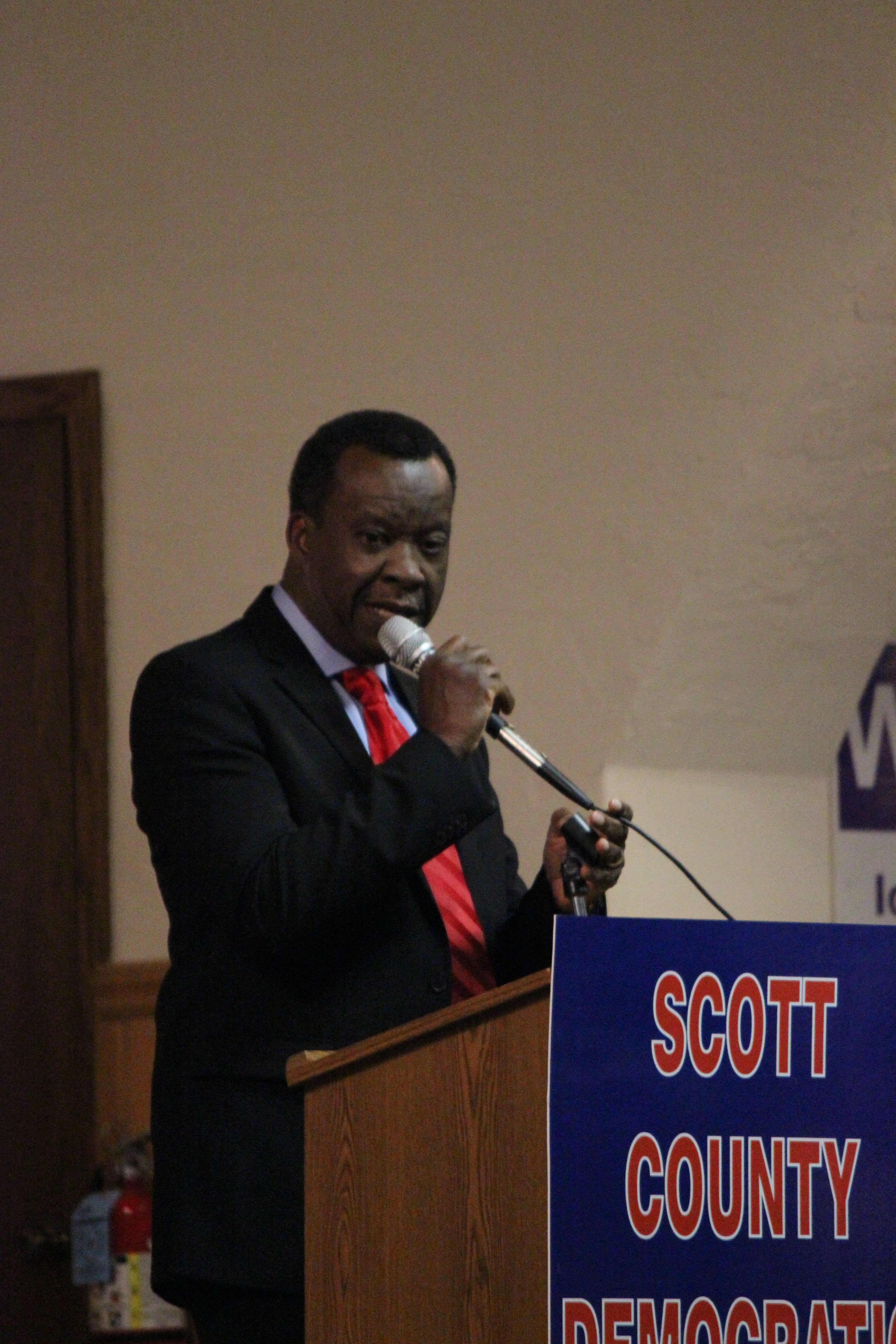 Willie Wilson thanks the Scott County Democrats for allowing him to speak at the dinner.